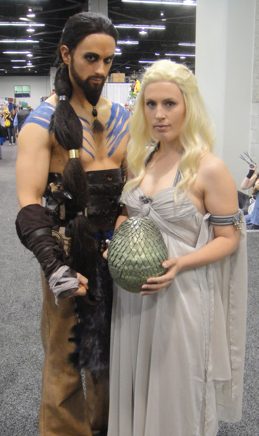 Fans of the TV series Game of Thrones costumed as Khal Drogo and Daenerys Targaryen at WonderCon 2012.